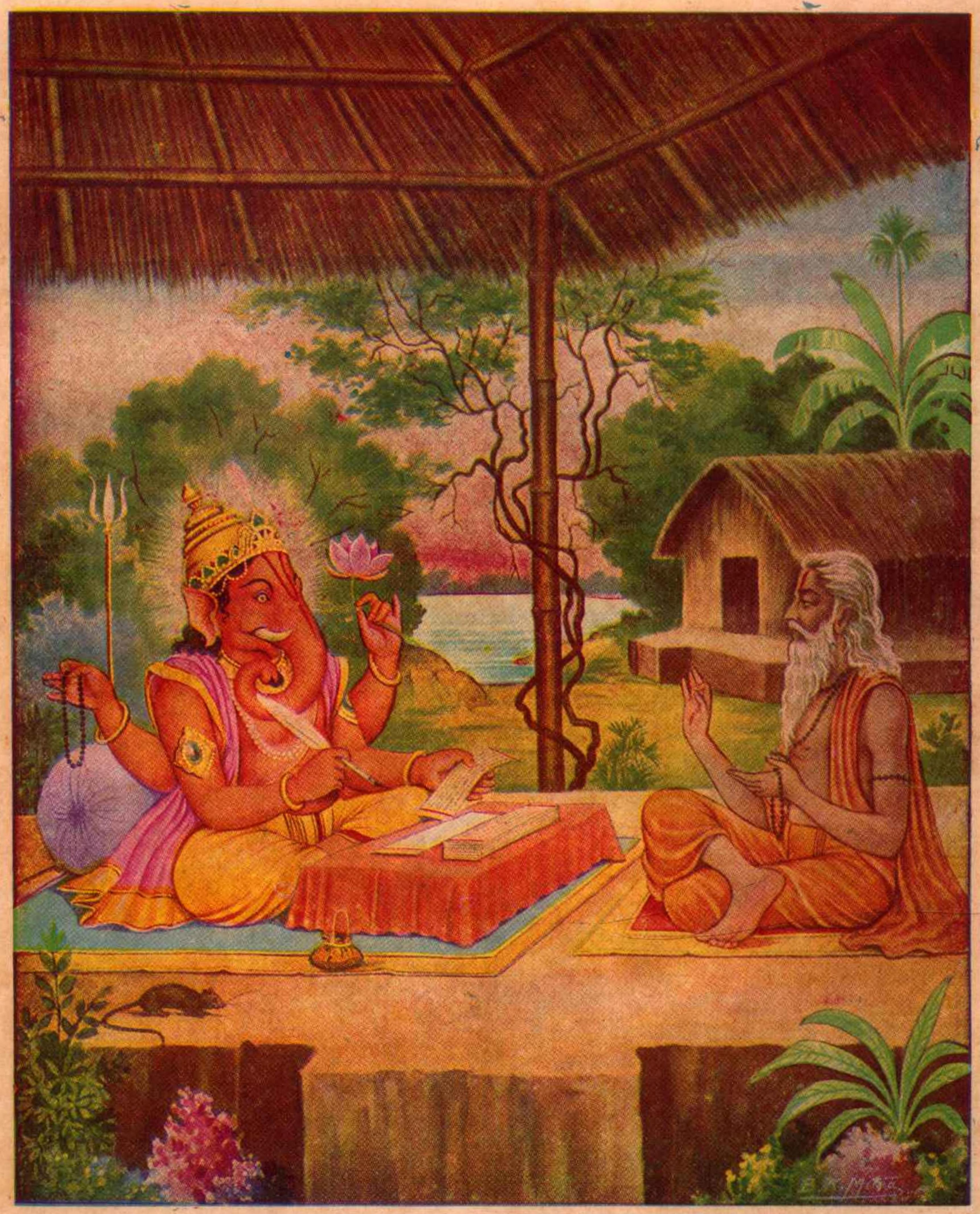 Sankshipta Mahabharat Part 1 Gita Press Gorakhpur by MahaMuni Usage Topics Sanskrit, "महामुनि का संग्रह", "Pratiek-Lucknow" Collection opensource Language Sanskrit Indological Books , 'Sankshipta Mahabharat Part 1 - Gita Press Gorakhpur.pdf' Identifier SankshiptaMahabharatPart1GitaPressGorakhpur Identifier-ark ark:/13960/t7gr34z5d Ocr language not currently OCRable Ppi 600 Scanner Internet Archive HTML5 Uploader 1.6.3 plus-circle Add Review comment Reviews There are no reviews yet. Be the first one to write a review.